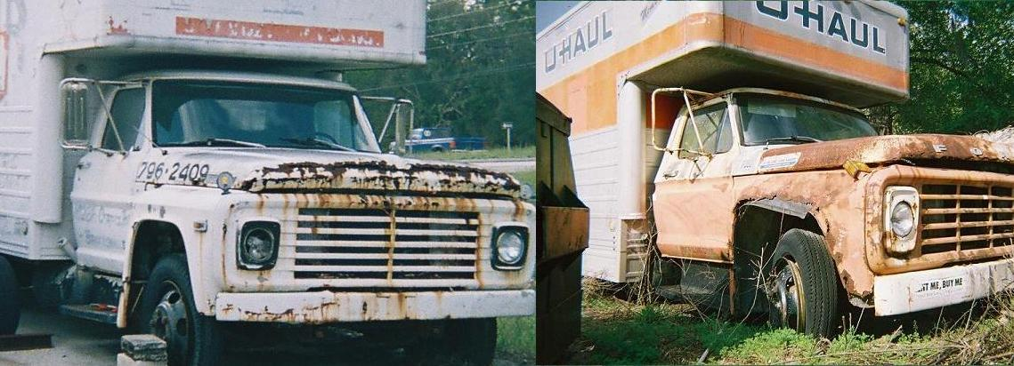 Side-by-side comparison of two versions of the Ford F-Series medium-duty trucks. Both are former U-Haul rental trucks, although this is more obvious with the one on the right. The one on the left is the fifth generation version made between 1967 and 1972, which in this case does not include a 1967 F-Series, because it has side-marker lights in the cowl insignia. The one on the right is a sixth-generation F-600 made between 1973 and 1979, although this one was much closer to 1979, because U-Haul began posting "Trim Line-Gas Saver" stickers on the hoods of their trucks during the late-1970's. As you can see, the differences between the 5th and 6th Generation medium-duty F-Series trucks are quite subtle compared to the 5th and 6th Generation light-duty F-Series trucks. Both trucks were on the property of the same garage on the corner of Florida State Road 50 and County Road 585 between Spring Hill, Florida and Brooksville, Florida.